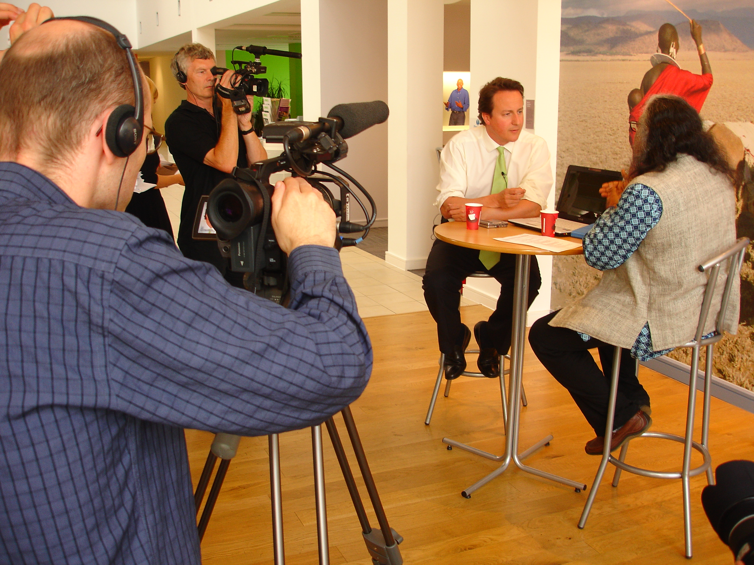 Rt Hon David Cameron, MP, Conservative Party leader, an interviewer, and two videographers during his visit to Oxfam headquarters in Oxford, England. Full version.